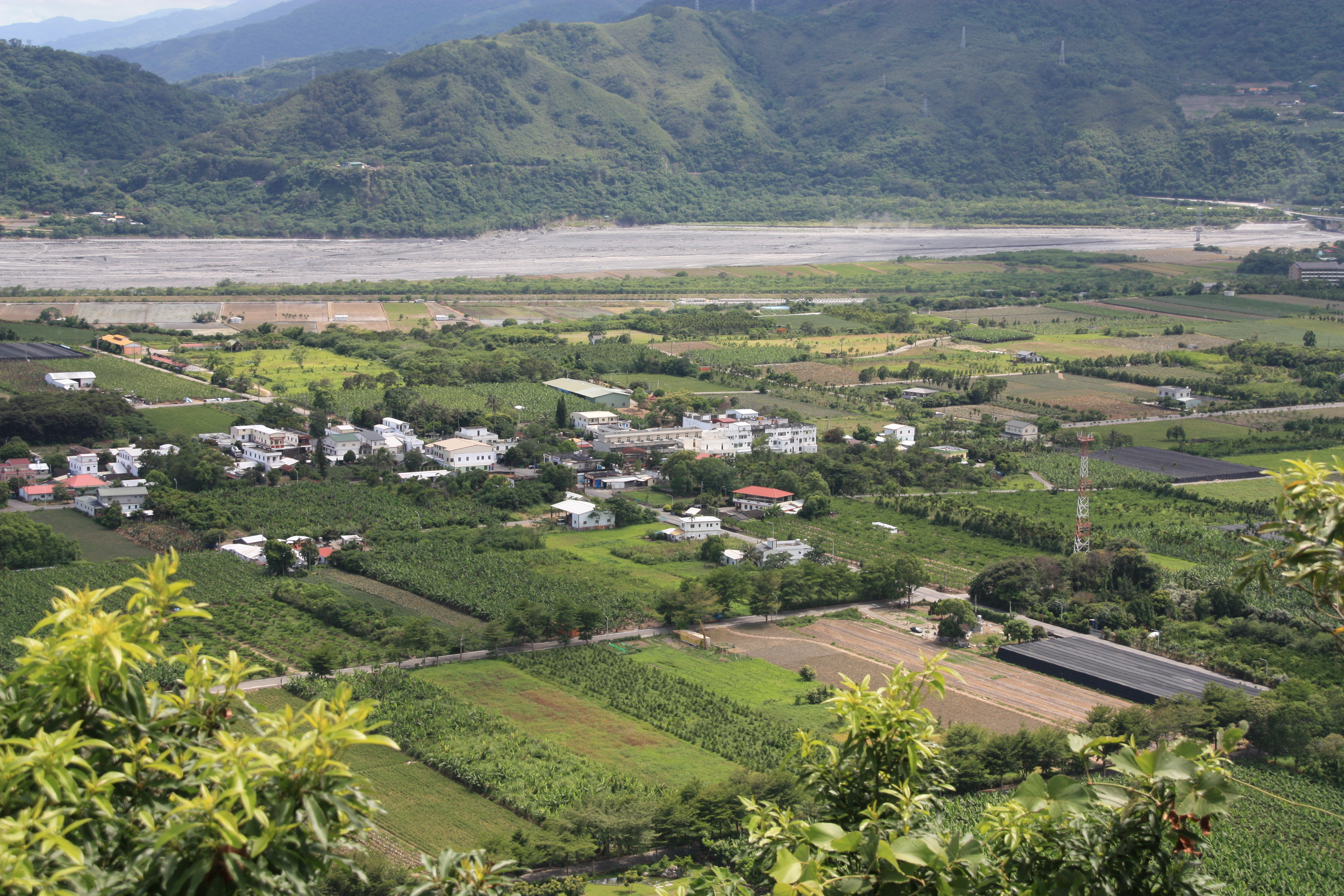 Taitung County Luye Township View to Pei Ssu Chiu river